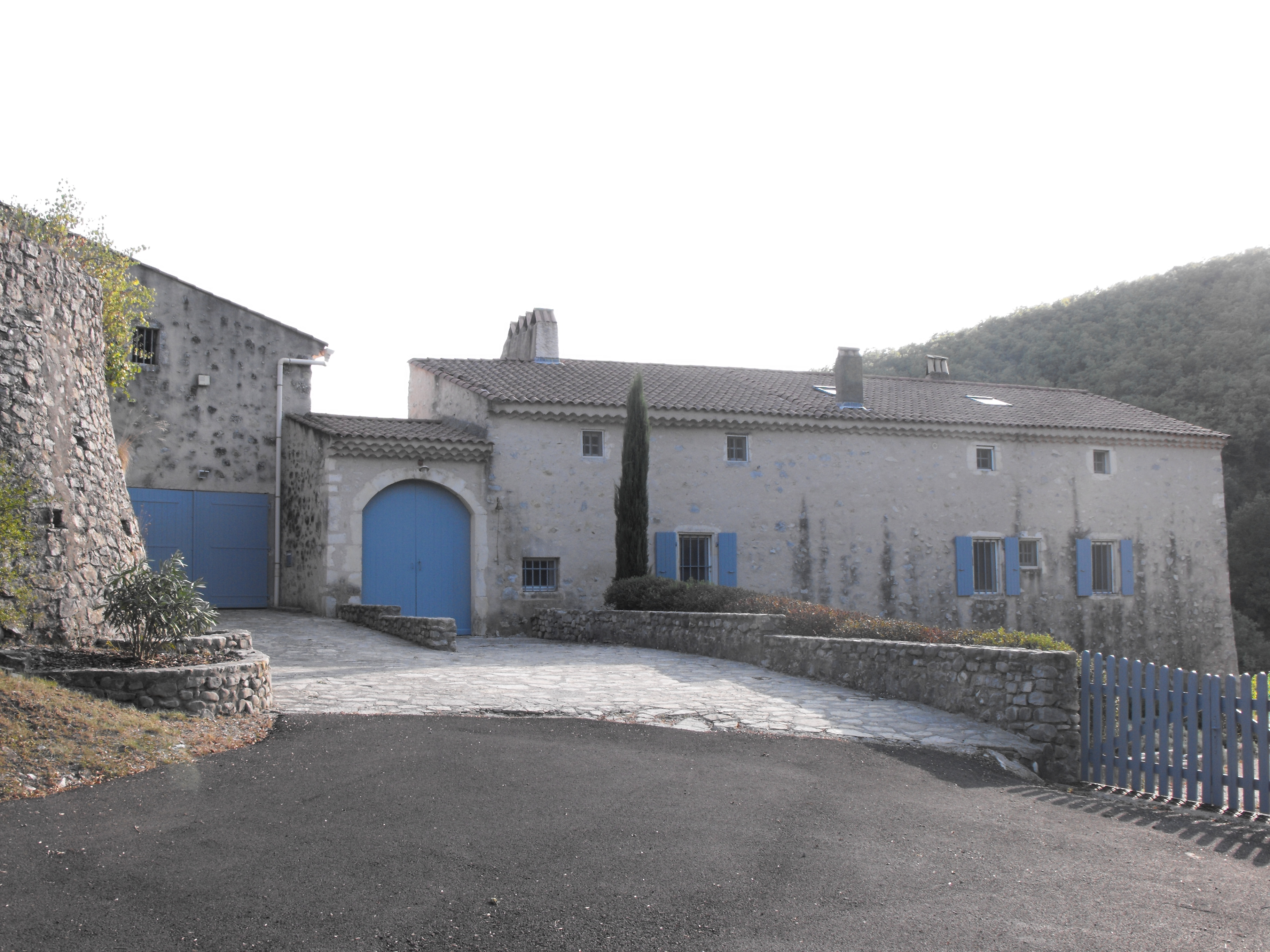 Former home of Leo Ferré, to Larnas.